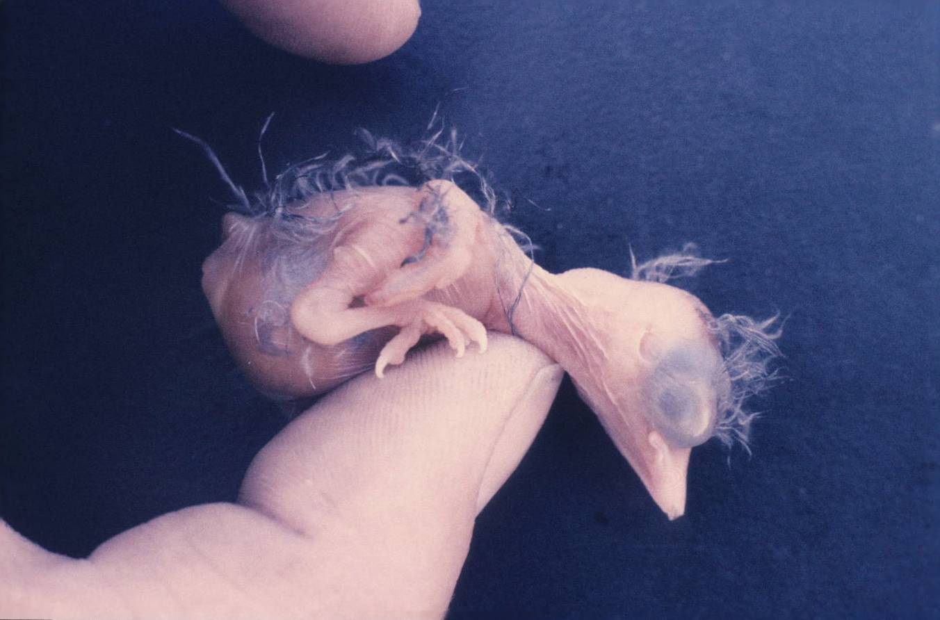 A Perisoreus canadensis hatchling. Algonquin Park, Ontario, Canada.